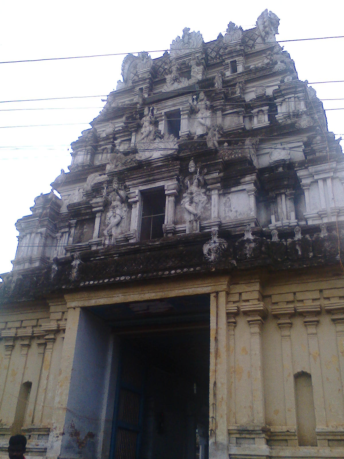 கும்பகோணம் கௌதமேஸ்வரர் கோயில்